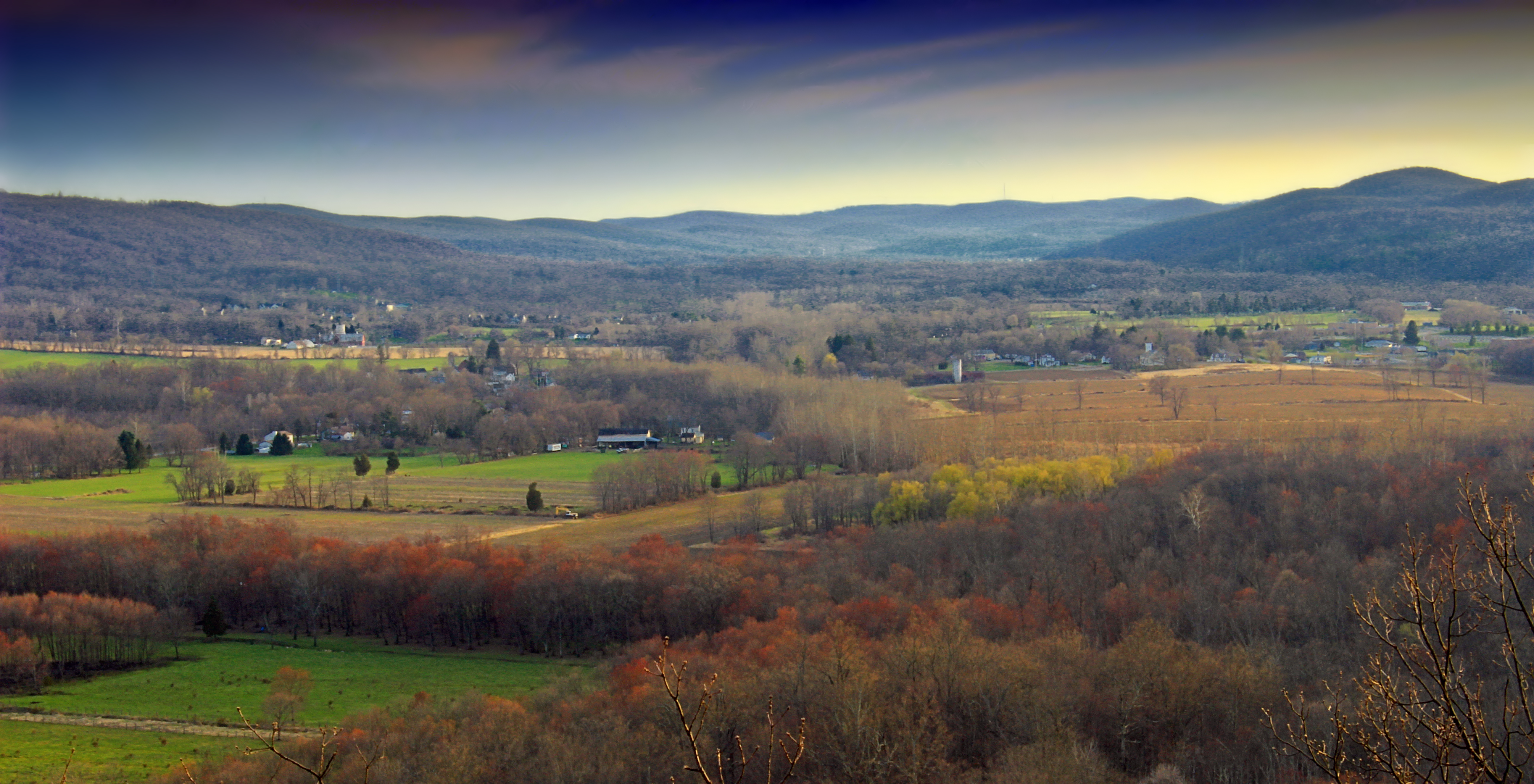 Pequest River Valley, Independence Township, Warren County, from a vista at the Old Farm Sanctuary, a New Jersey Audubon Society preserve. A rock outcrop on Cat Swamp Mountain provides the view. Visible on the right is Danville Mountain; on the left, a prong of Allamuchy Mountain; and in the far distance, Upper Pohatcong Mountain.